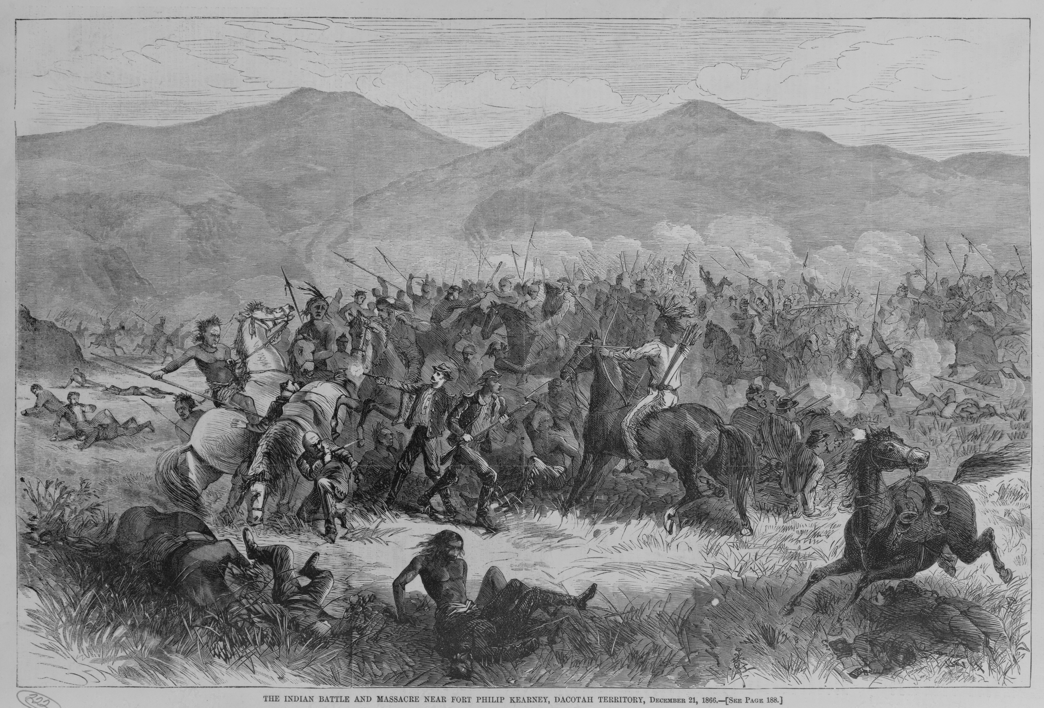 The "Fetterman massacre", during Red Cloud's War. Sioux and Cheyenne warriors battle U.S. soldiers near Fort Philip Kearney, Dakota Territory.